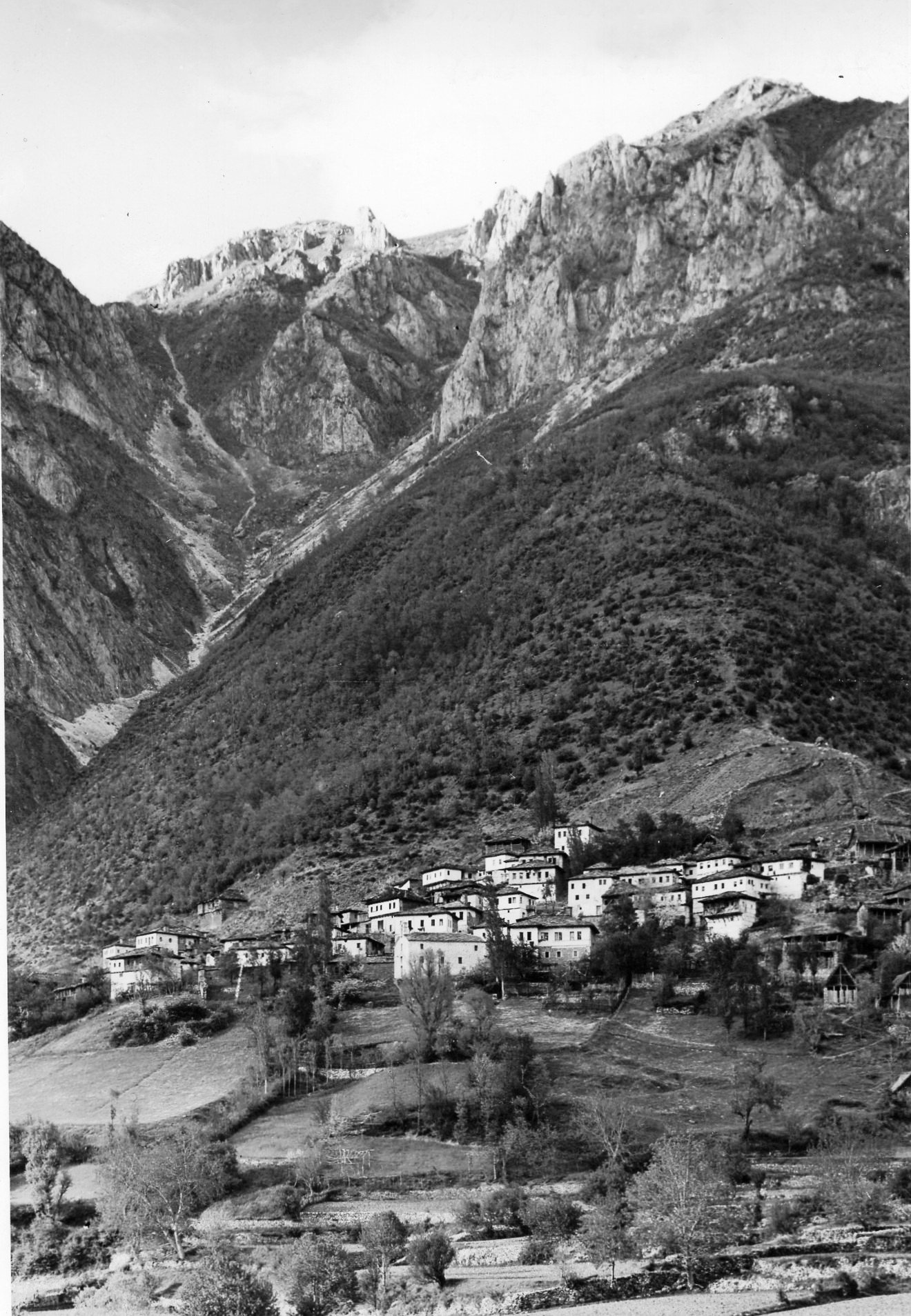 Village Janče, near Debar, in a gorge of the river Radika This media file is produced by Wikipedian in Residence in Category:Wikipedian in Residence at DARM in 2016.